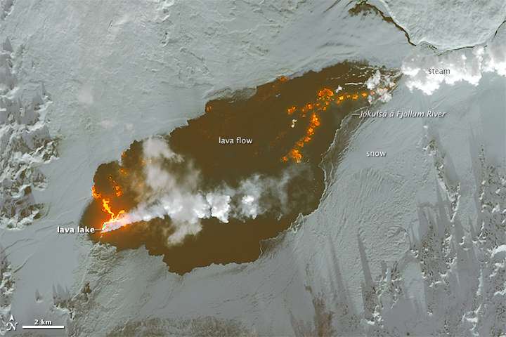 Holuhraun lava field on 3 January 2015